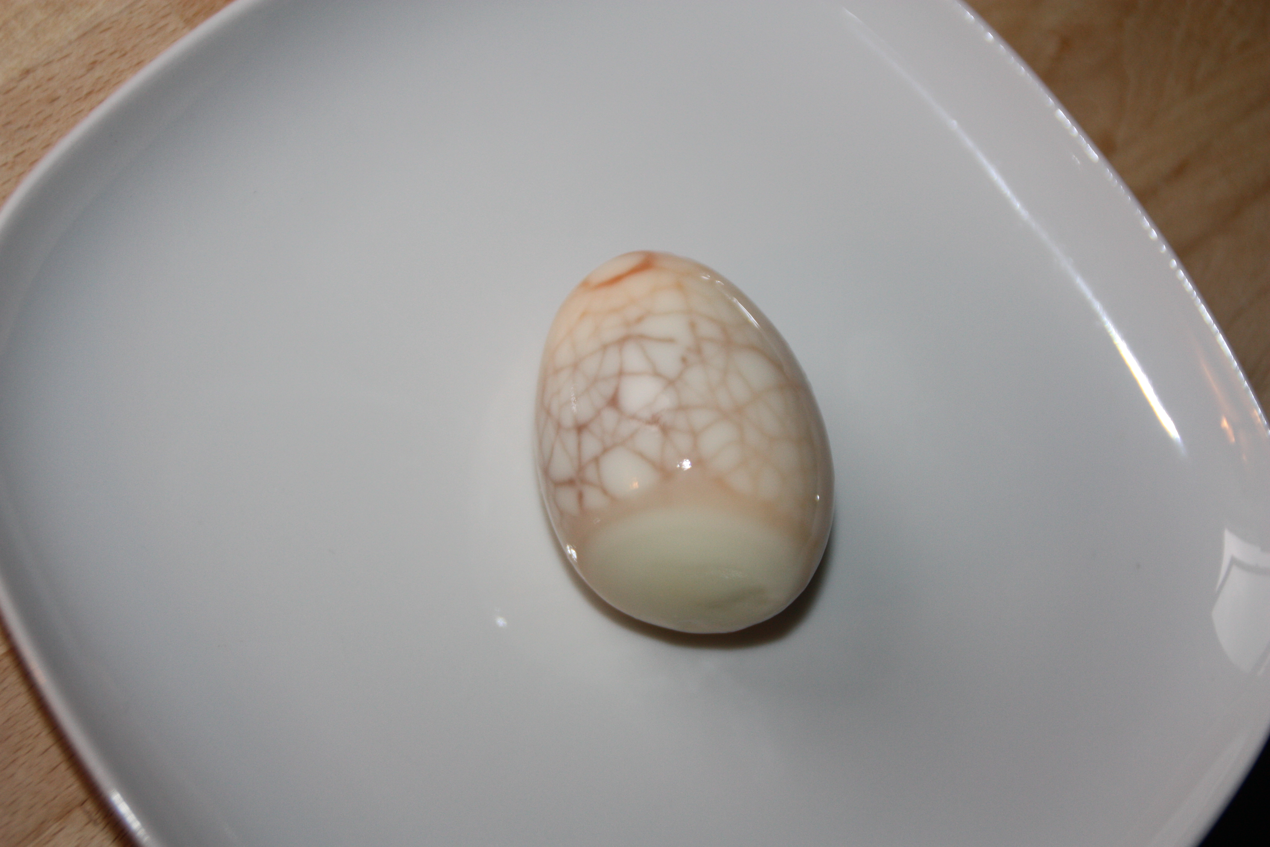 Danish Pickled egg dyed with onionpeel